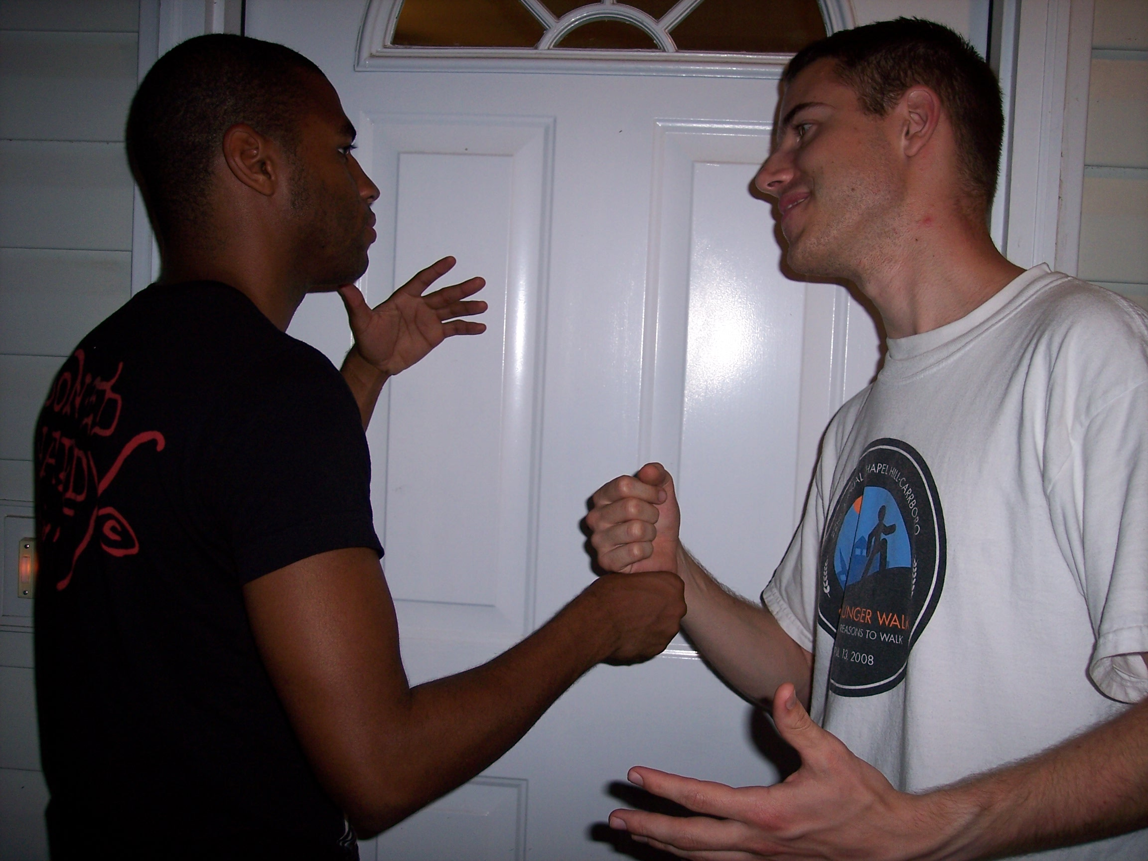 One of many variations on The Dap Greeting